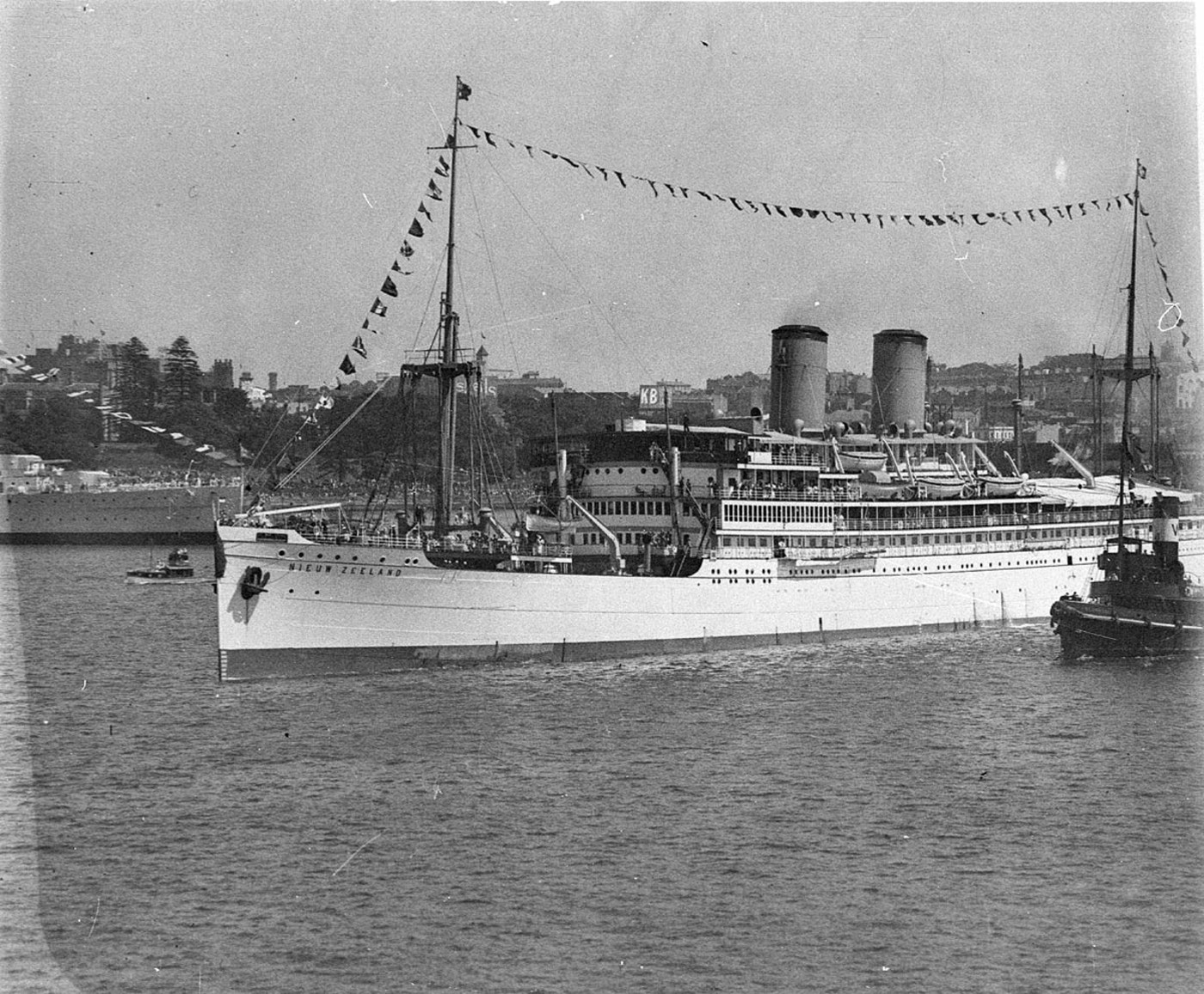 Format: Glass negative Find more detailed information about this photograph: .au/item/itemDetailPaged.aspx?itemID=44225 Search for more great images in the State Library's collections: .au/search/SimpleSearch.aspx From the collection of the State Library of New South Wales